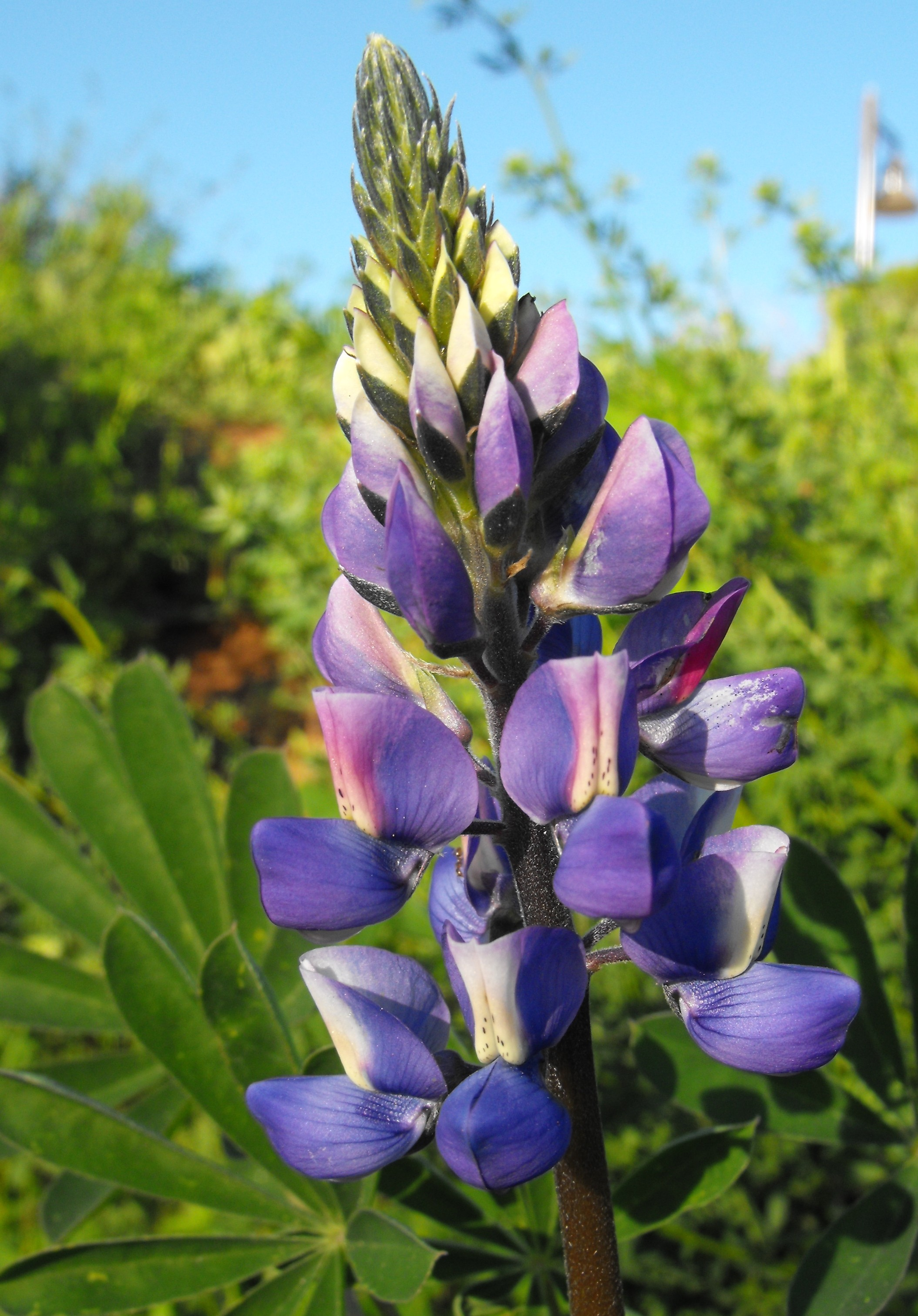 Lupinus succulentus — arroyo lupine. At Blue Sky Ecological Reserve in Poway, San Diego County, California.